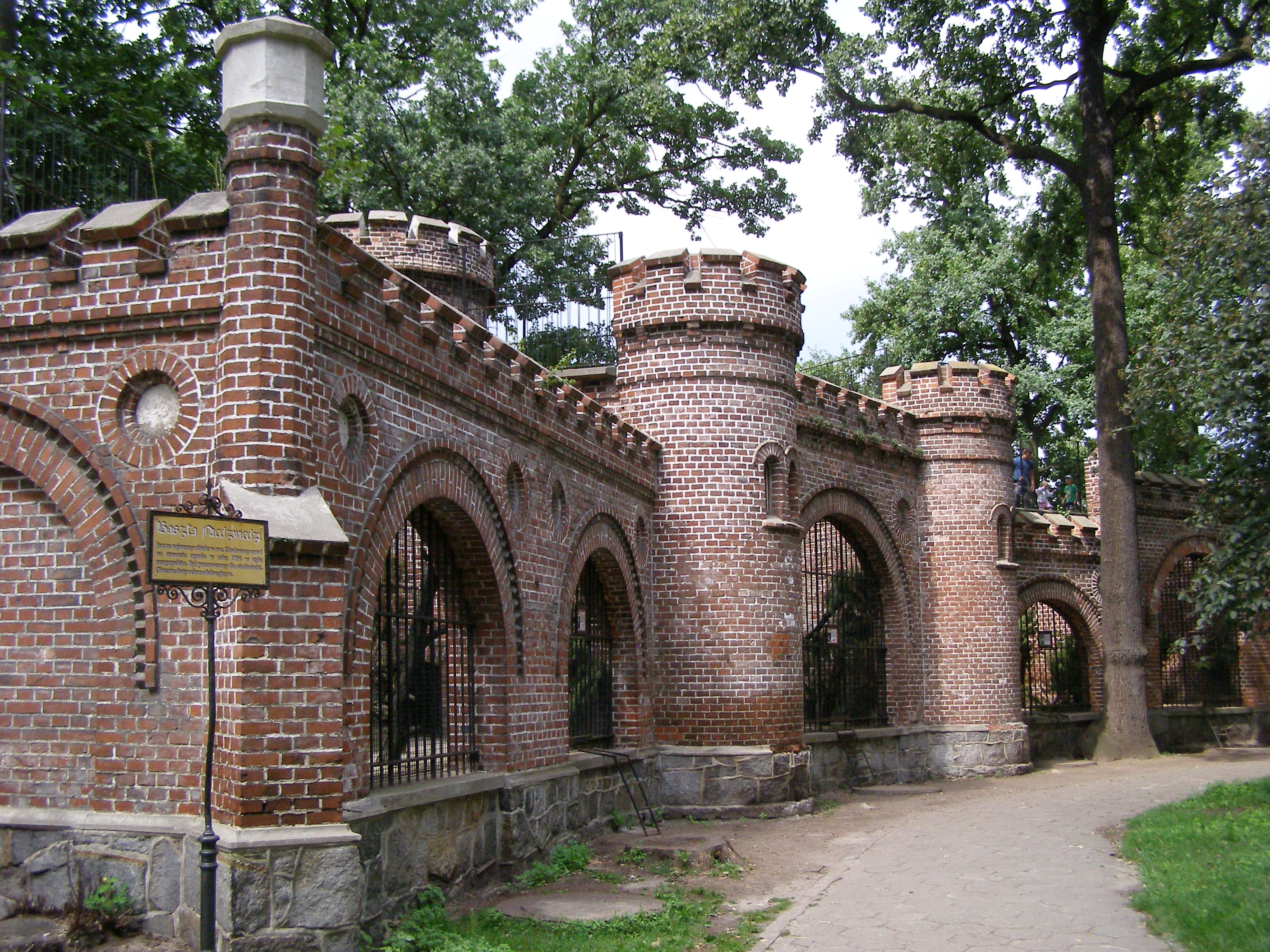 Wrocław - Zoological Garden - Bear Fortress